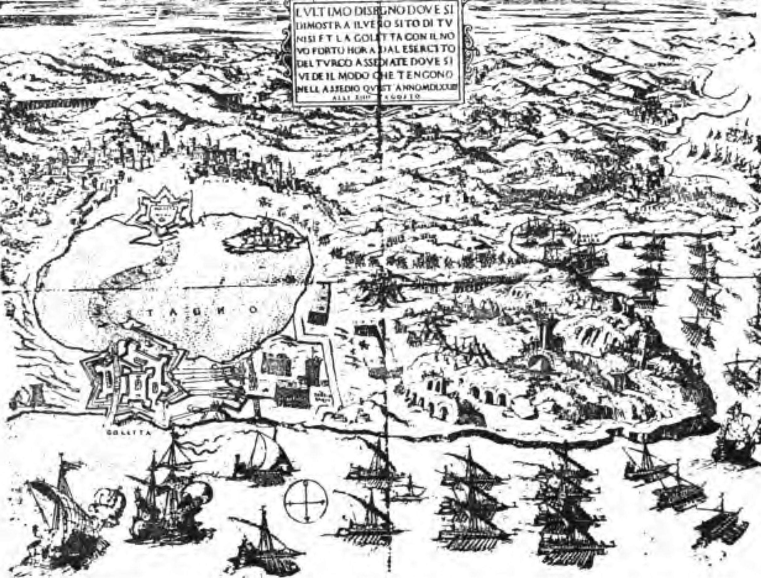 Tunis in 1573, found in The Story of the Barbary Corsairs' by Stanley Lane-Poole, published in 1890 by G.P. Putnam's Sons.